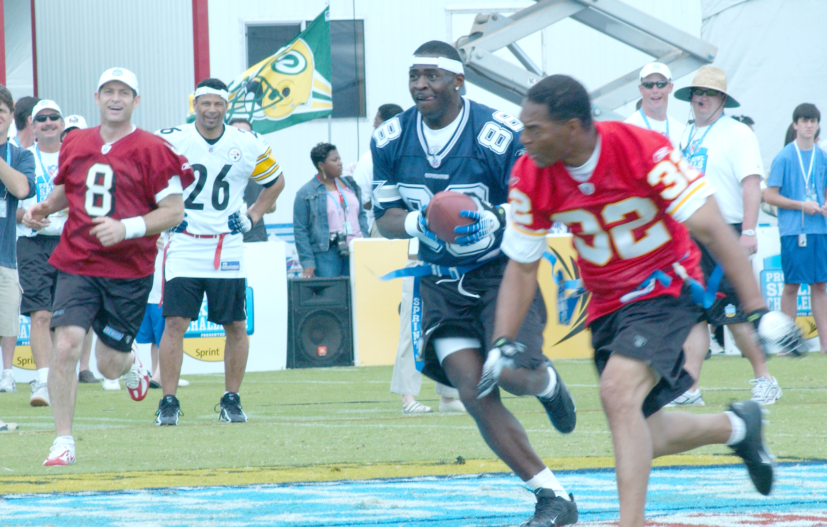 National Football League stars of past and present participated in the ESPN Pro Bowl Skills Challenge, part of the ProBowl weekend, and put on a show for servicemembers in Hawaii at the J.W. Marriott Ihilani Resort and Spa, Feb. 10. The former greats kicked it off with the Alumni Air-It-Out flag football game. Steve Young and Michael Irvin connected on several passes to stomp John Elway’s team. Rod Woodson (#26) is in the background.